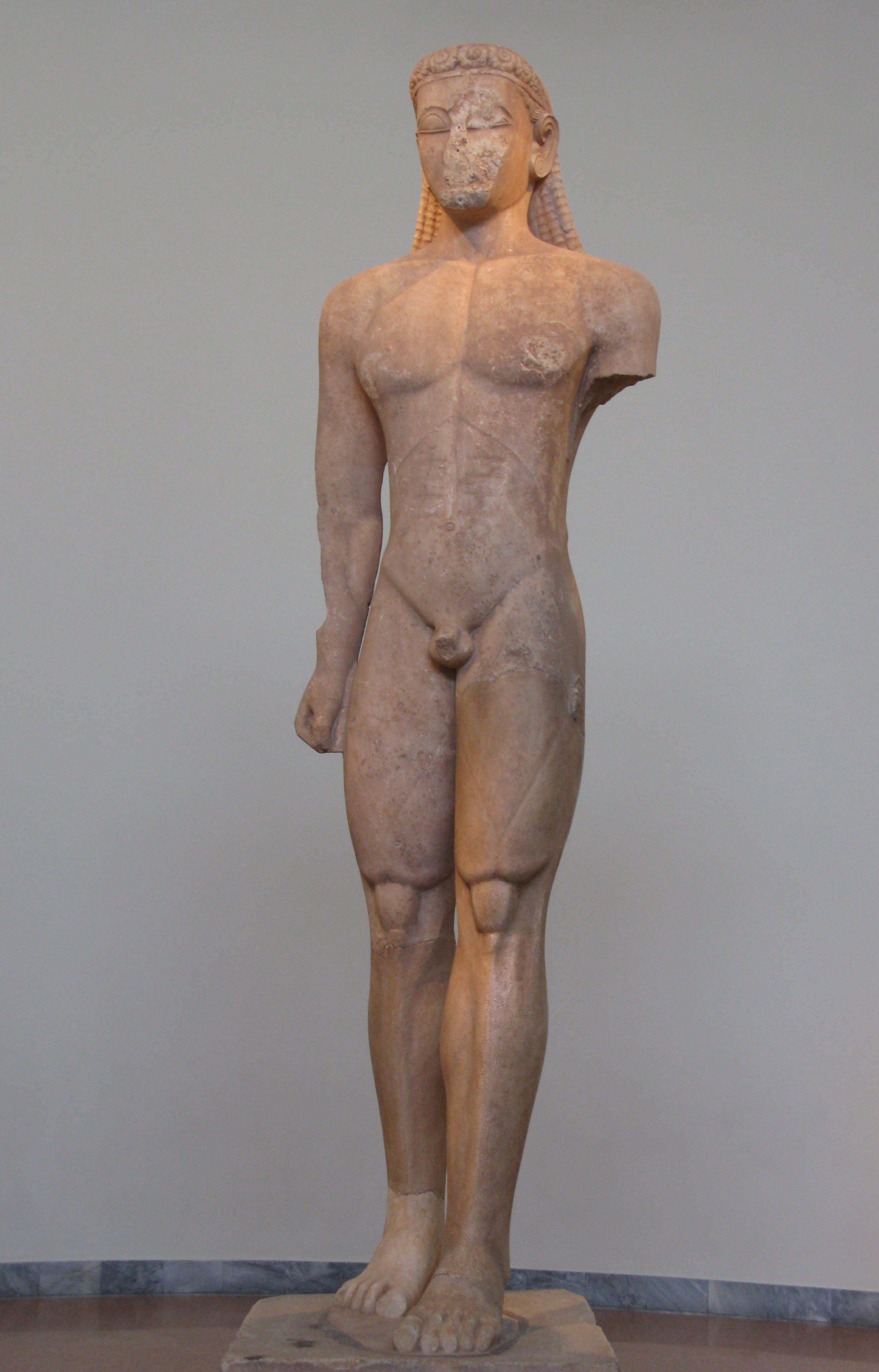 Cape Sounion kouros. Marble, H. 3.05 m. Realized very soon after 600. National Archaeological Museum. Athens, Greece